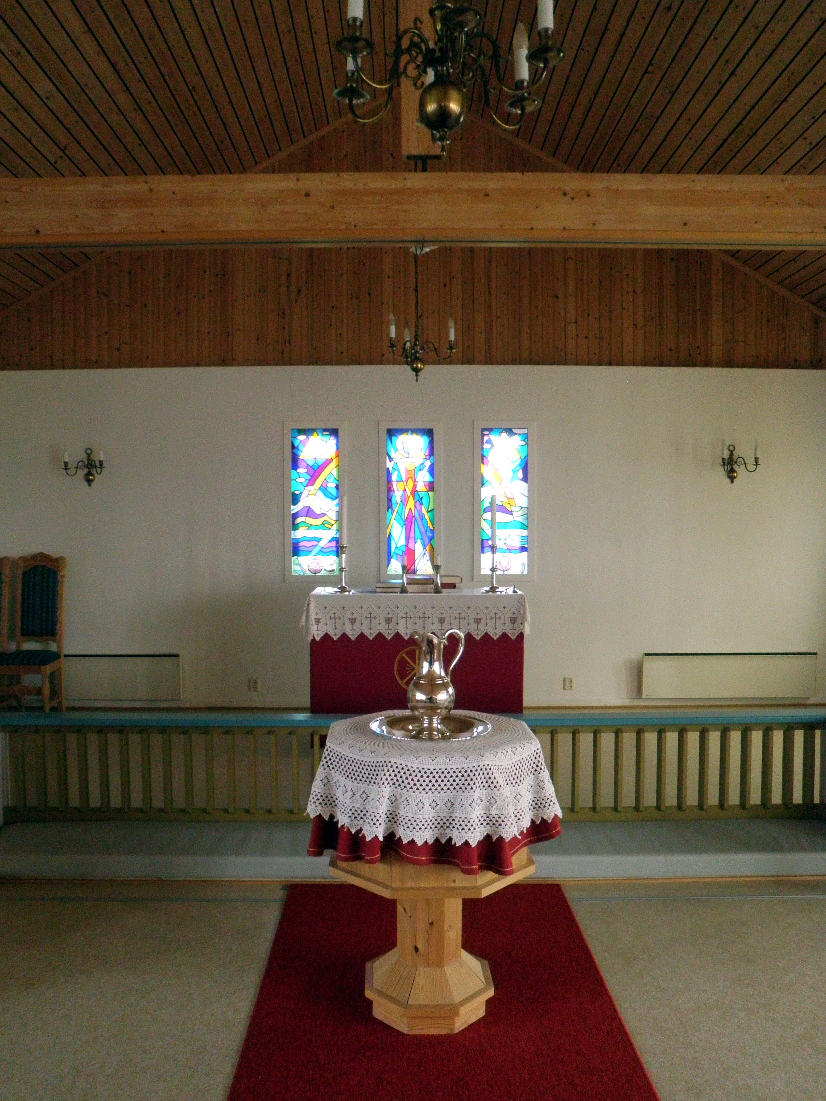 View of the altar in Sørvær Chapel, in Hasvik, Finnmark, Norway.